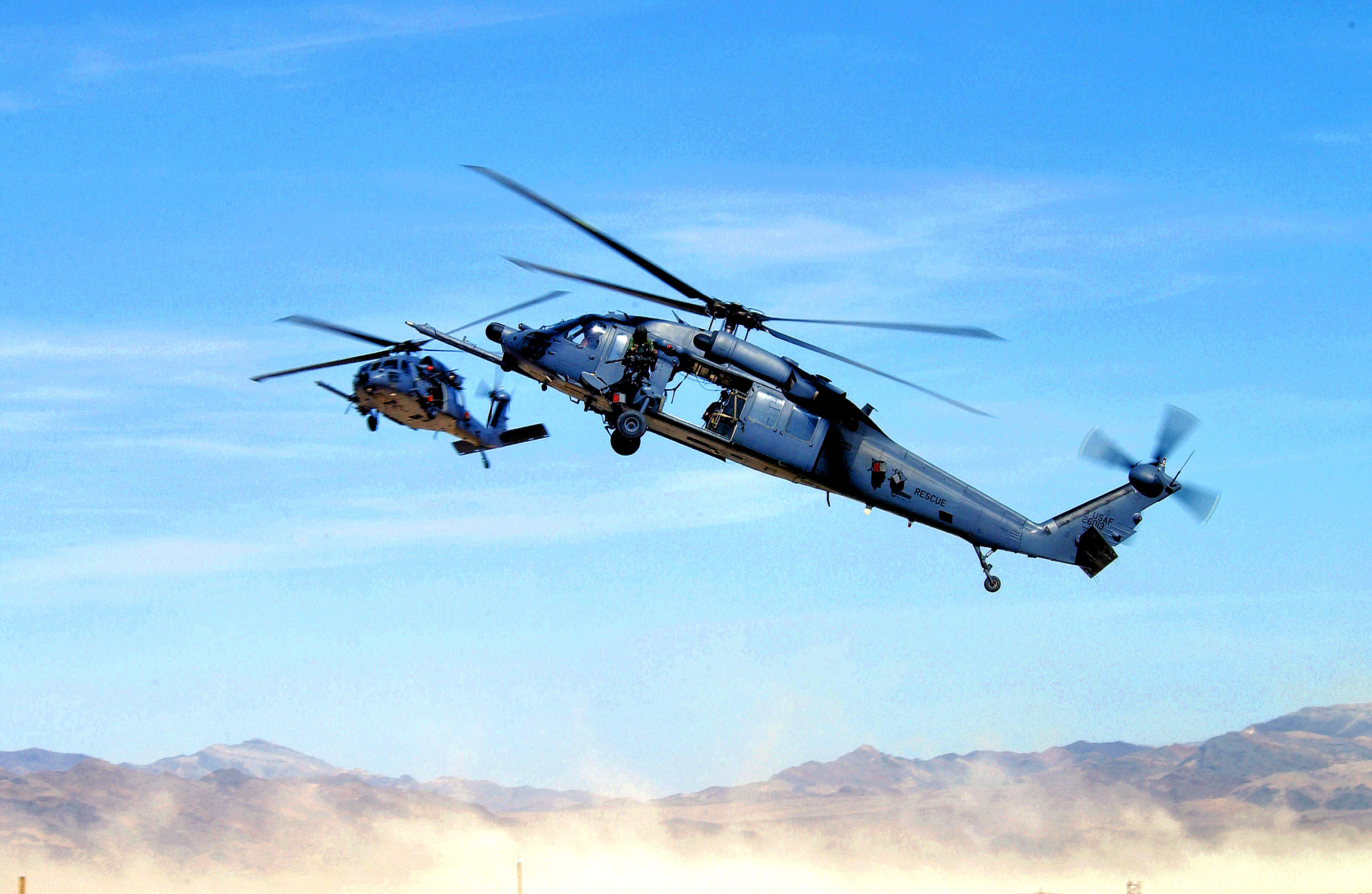 Two HH-60 Pave Hawks maneuver into position to "rescue a downed pilot" during a firepower demonstration here recently. The helicopters are assigned to the 34th Weapons Squadron, Nellis Air Force Base, Nev. (U.S. Air Force photo by Master Sgt. Robert W. Valenca)